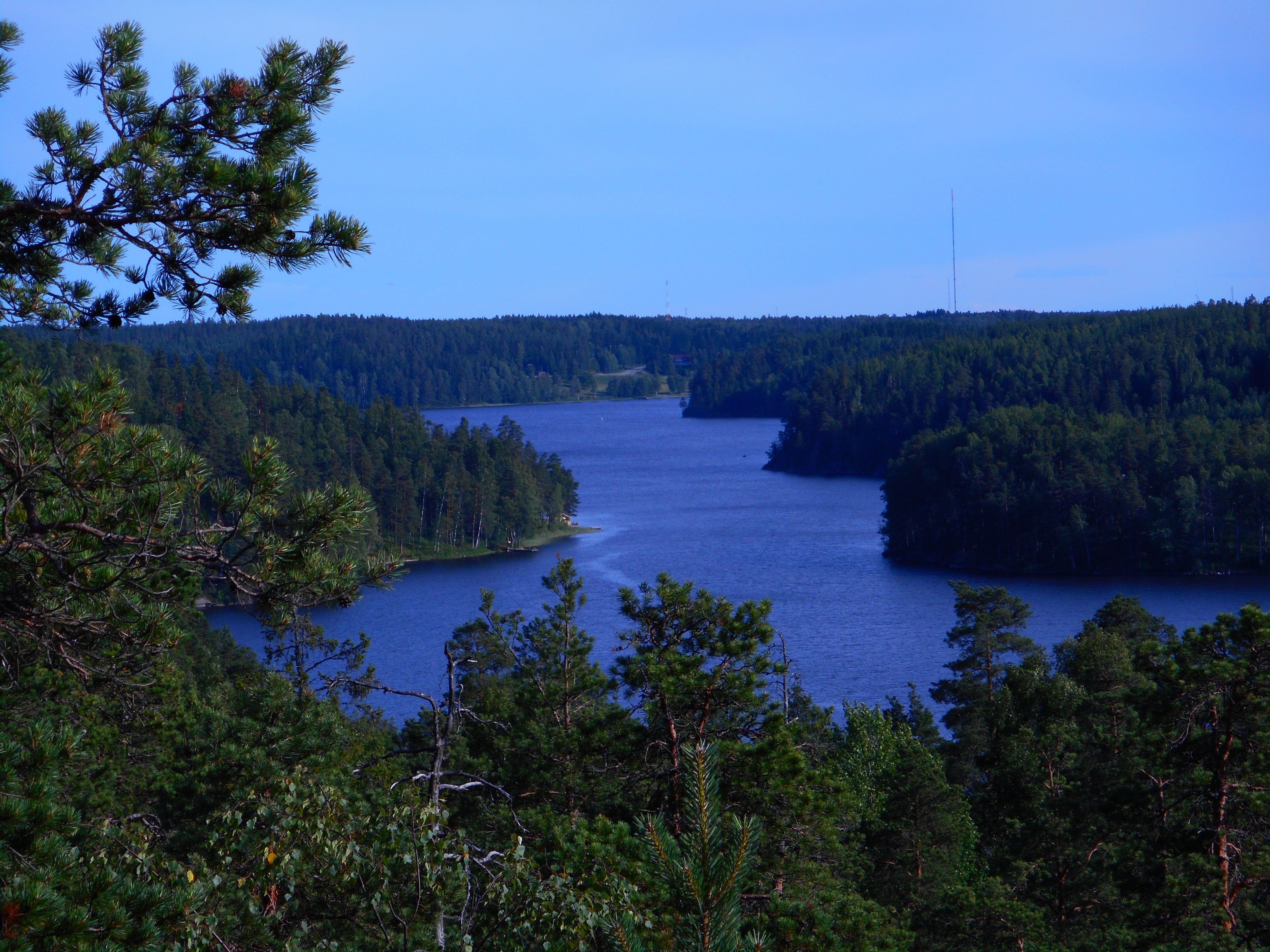 Lake Pitkäjärvi in Nuuksio National Park